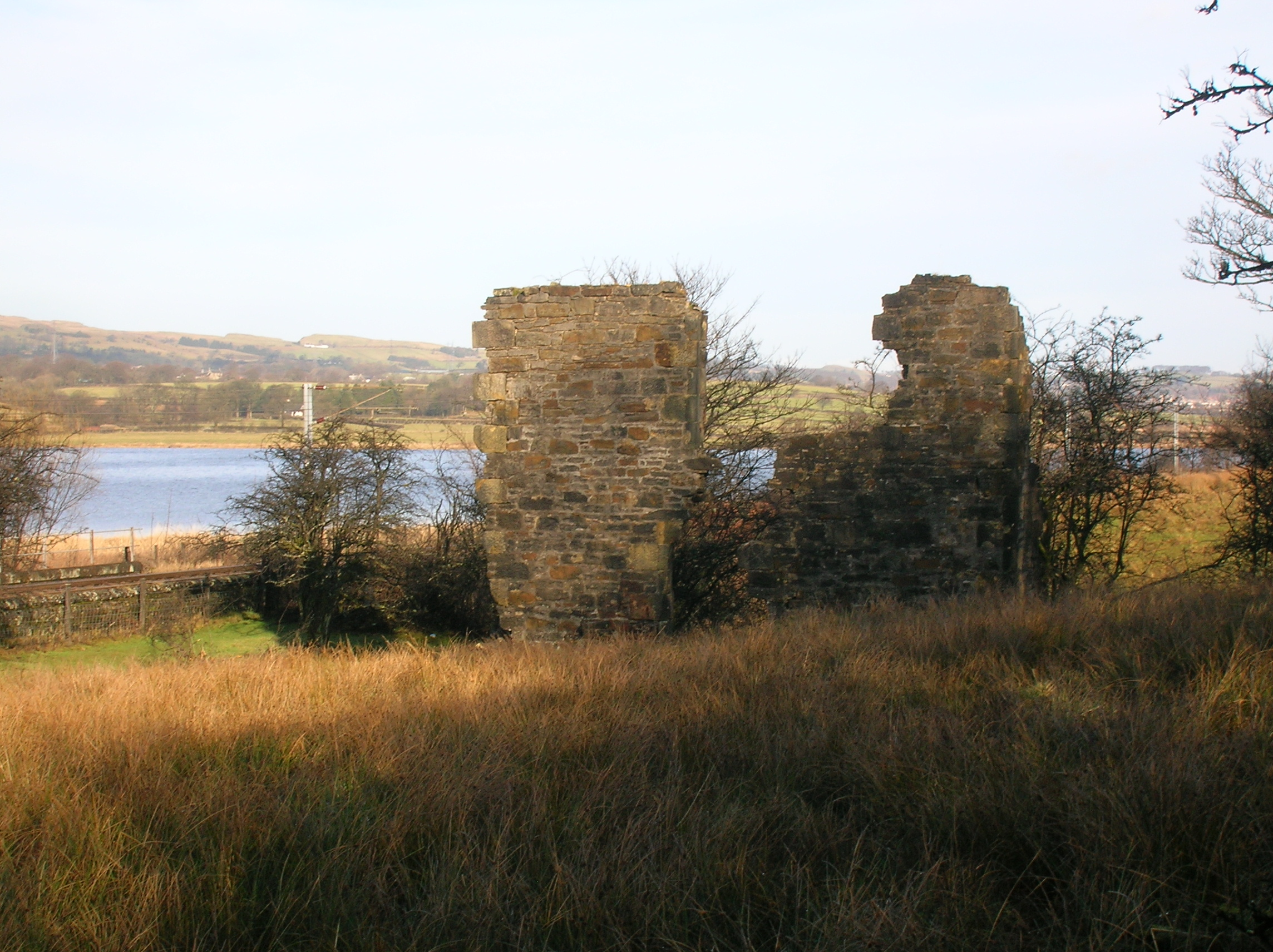 The ruins of the Bark Mill, Mains Burn, Beith, North Ayrshire, Scotland.